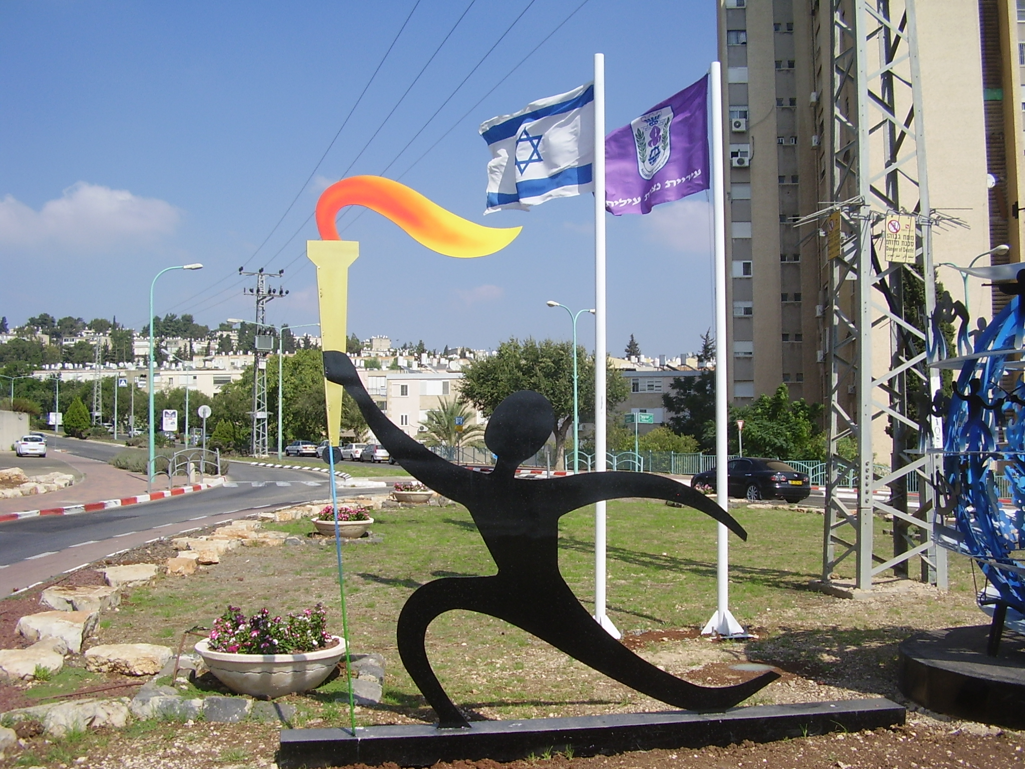 Memorial to Munich massacre in Nazareth Illit, Israel